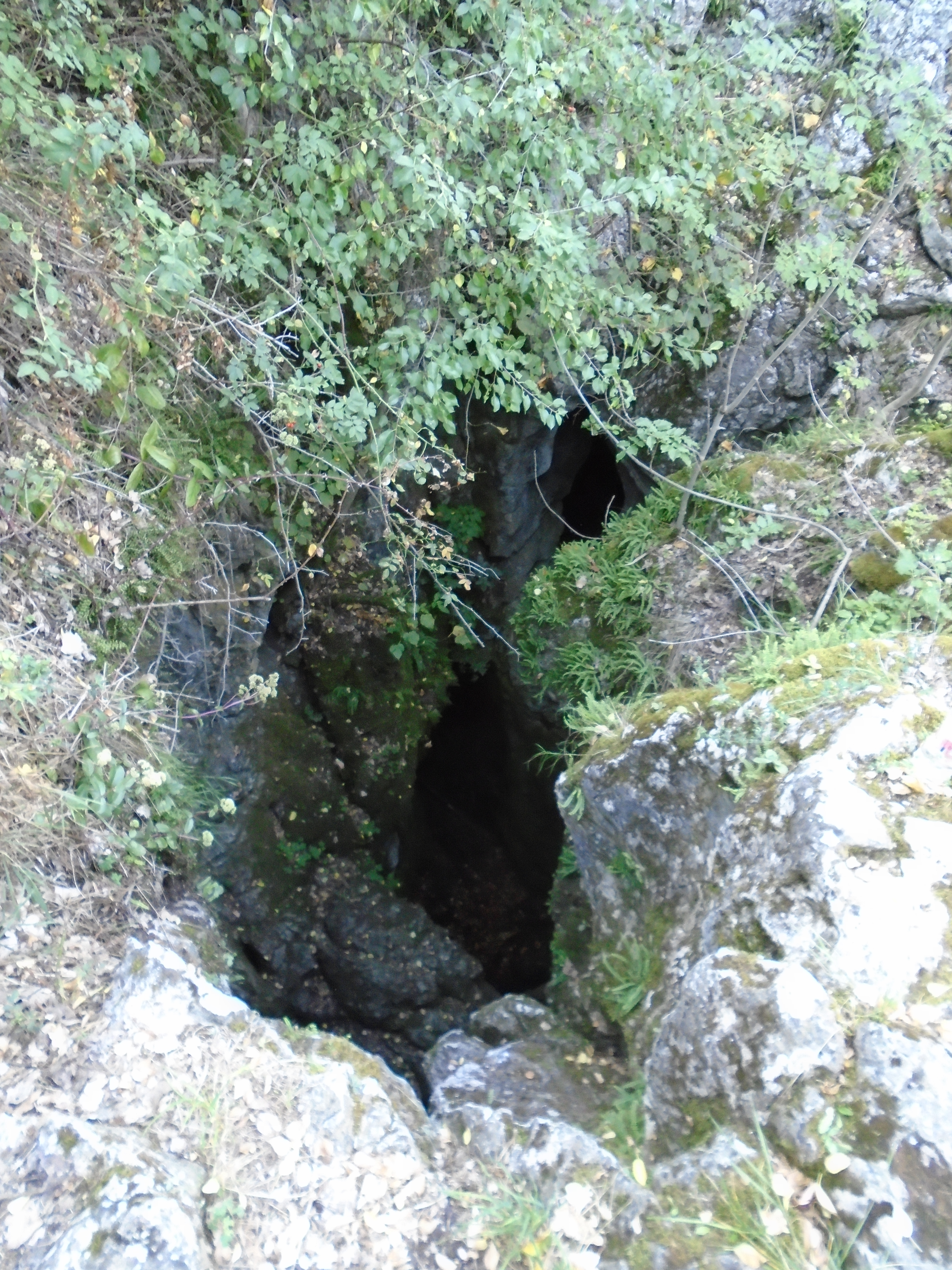 Entrance of Hét Hole.